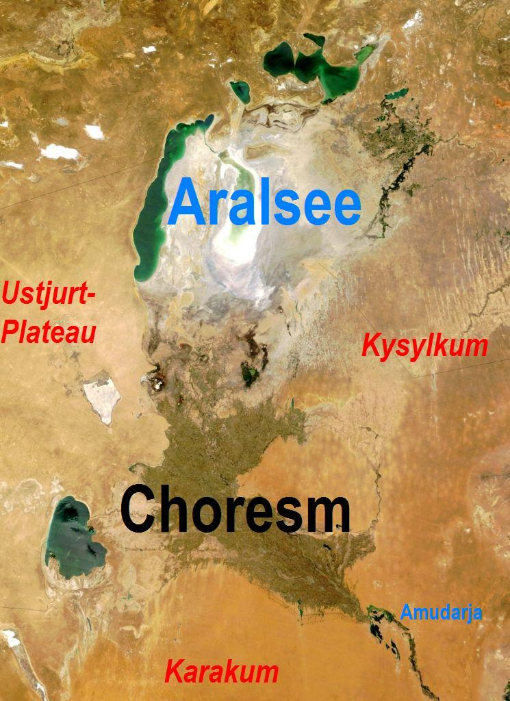 Khwarazm oasis and Aral Sea (satellite image 2009)